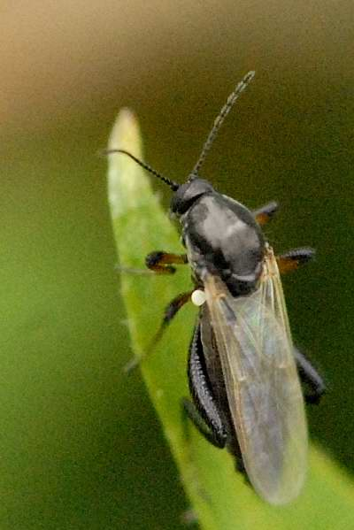 Serromyia femorata from Commanster, Belgian High Ardennes .